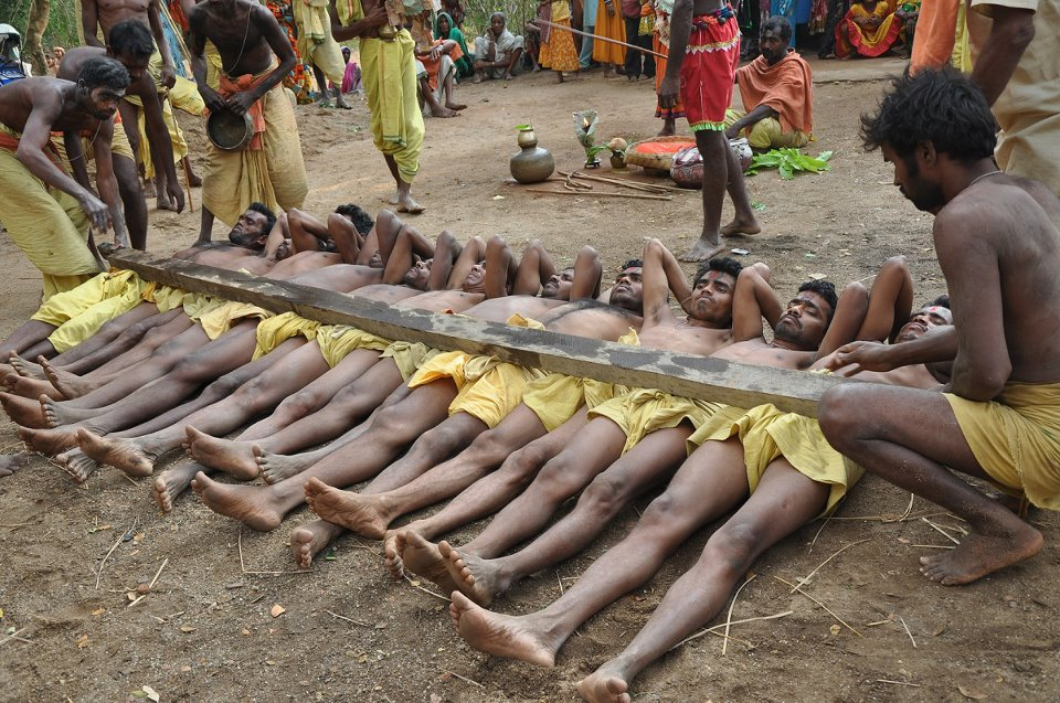 Danda Nacha- The famous Devi Kali Pooja of Orissa. Kamanika (the worshiper whose wise got fulfilled by goddess) do danda nacha under afternoon burning hot sun and won’t even drink water in day except once in night.